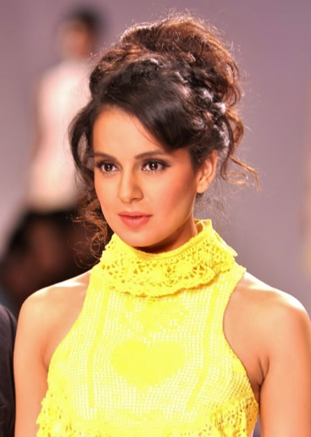 Kangana Ranaut walking the ramp at Signature International Fashion Weekend